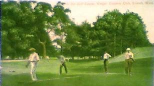 postcard of golfers on the green at Vesper Golf course